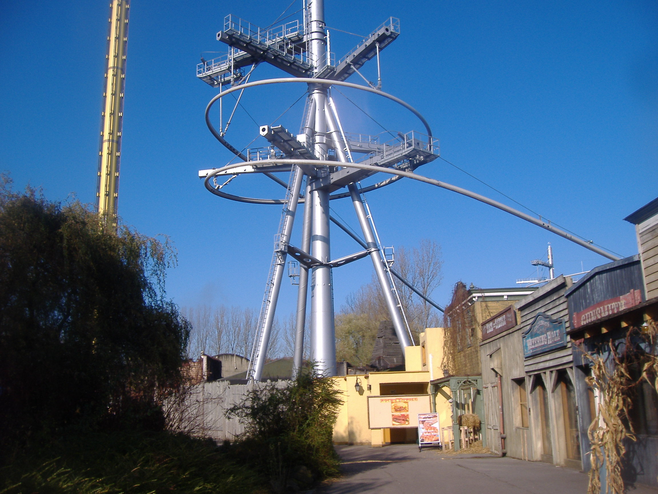 Vertigo (2006 - 2008) was a suspended roller coaster at Walibi Belgium.